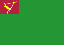 Flag of Wasilkowski Raion, Ukraine.